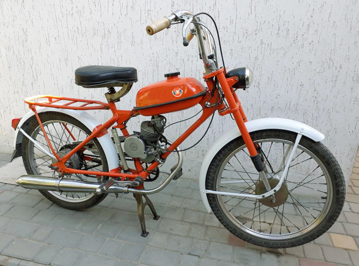 USSR moped « Riga-13», Riga motorcycle factory